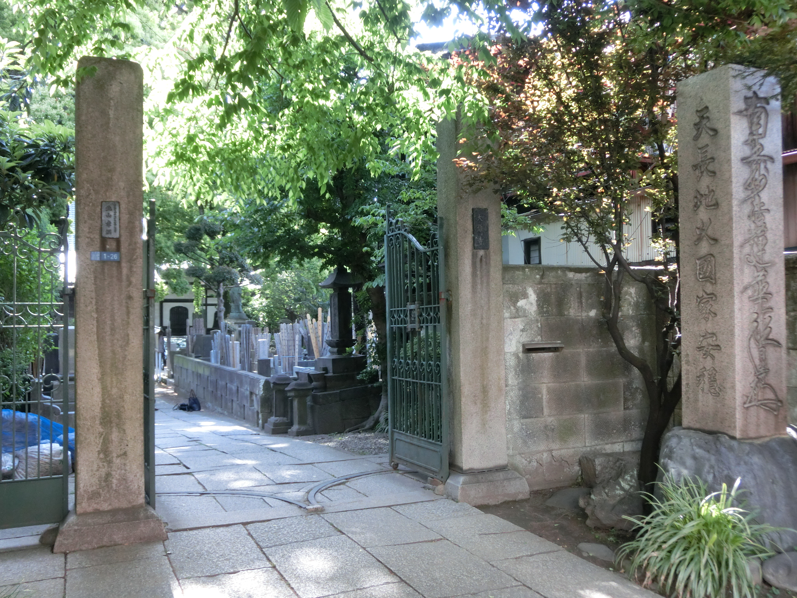 Daiyu-ji (Taito)